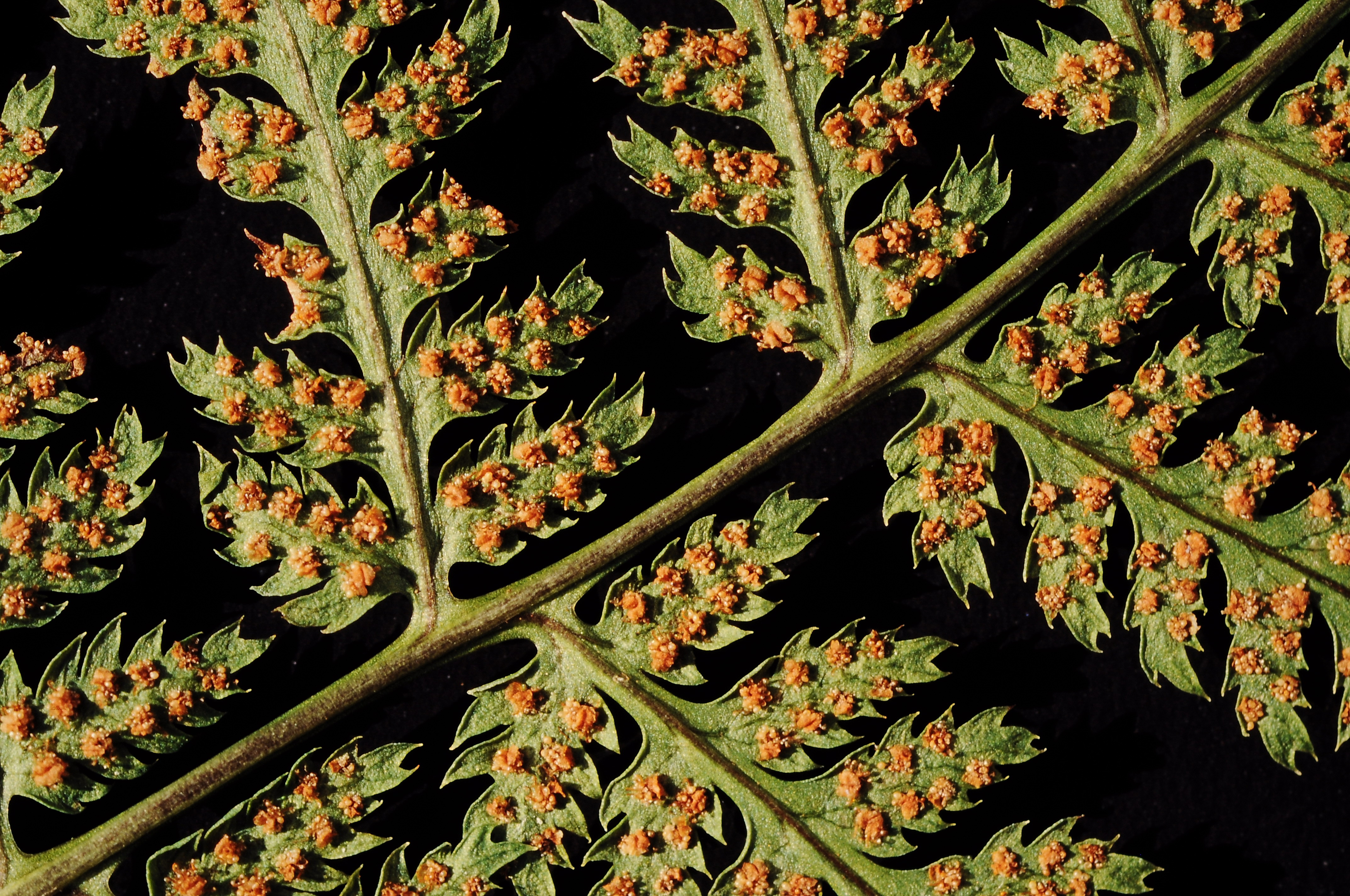 Spores of an unidentified fern